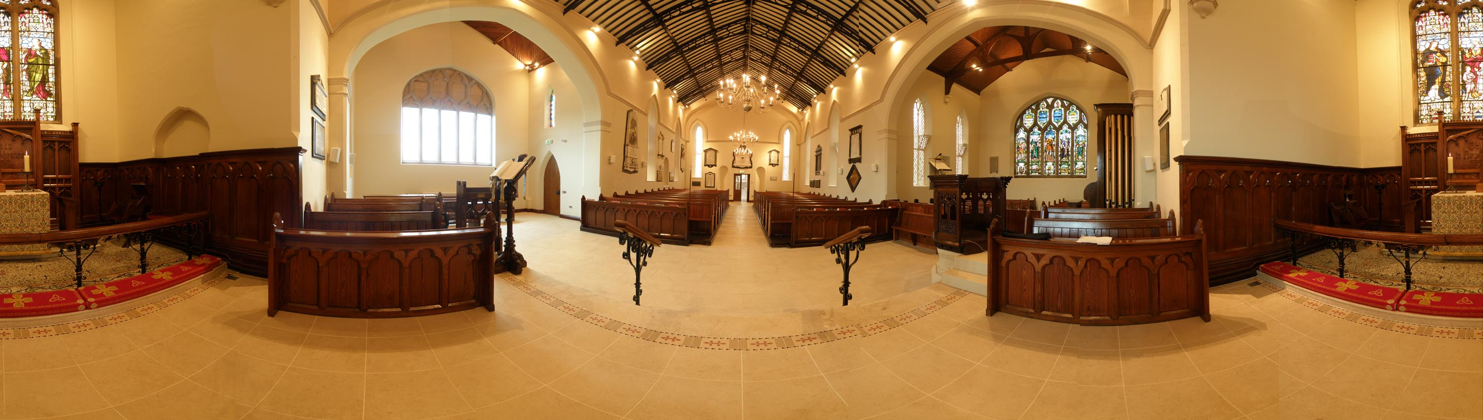 A panoramic view of the interior of St. Mary's Parish Church, Comber, taken from the chancel steps. The stained glass window in the South Transept has not yet been installed (it was installed in December 2008, the photo was taken the previous September)